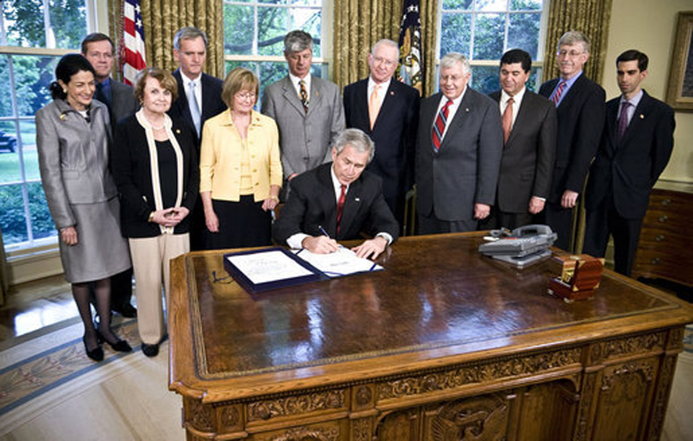 Members of congress and National Institutes of Health officials look on as President George W. Bush signs H.R. 493, the Genetic Information Nondiscrimination Act (GINA) of 2008, in the Oval Office on May 1, 2008. Eric Draper, The White House.